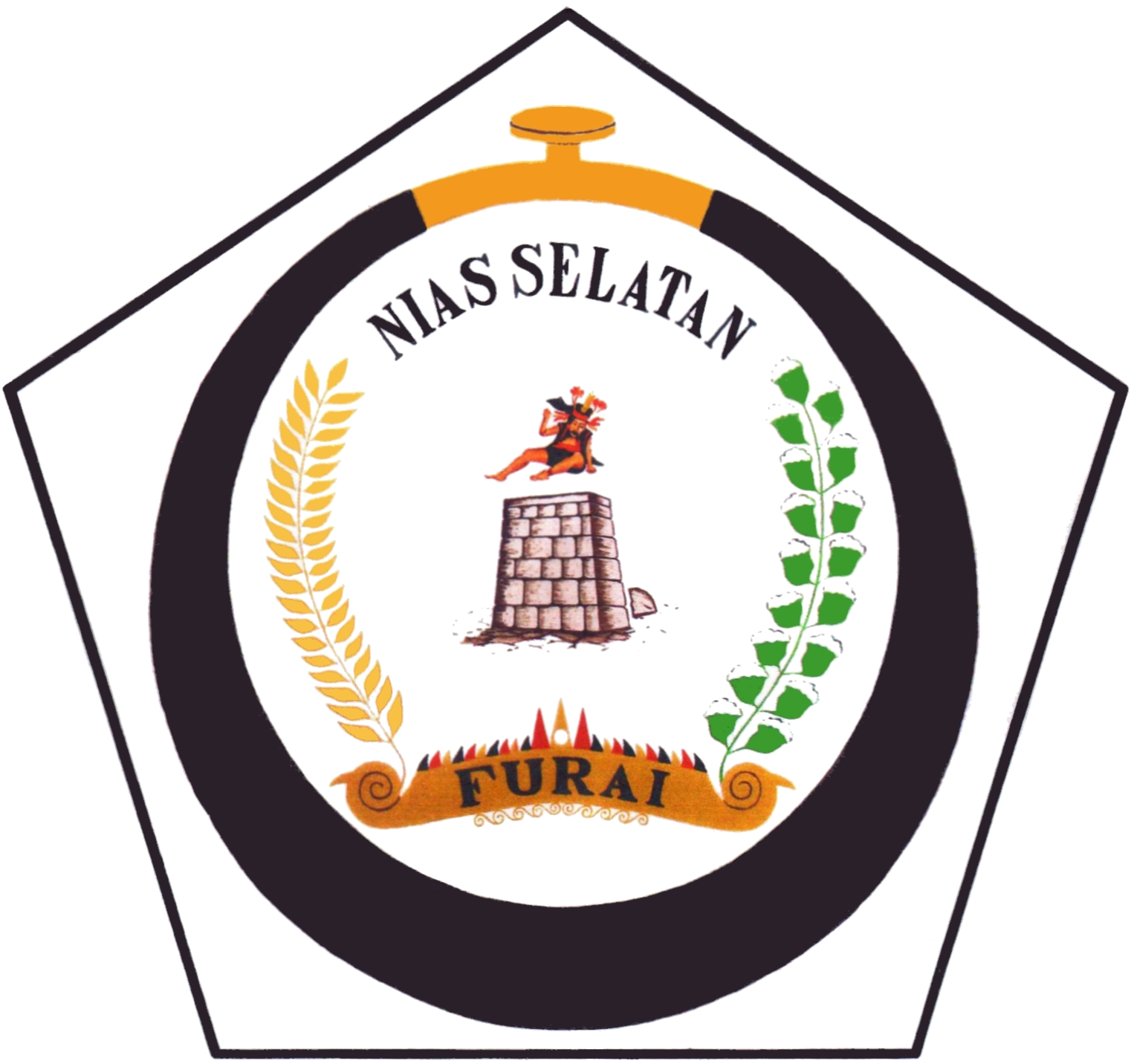 Coat of arms of South Nias Regency, North Sumatra